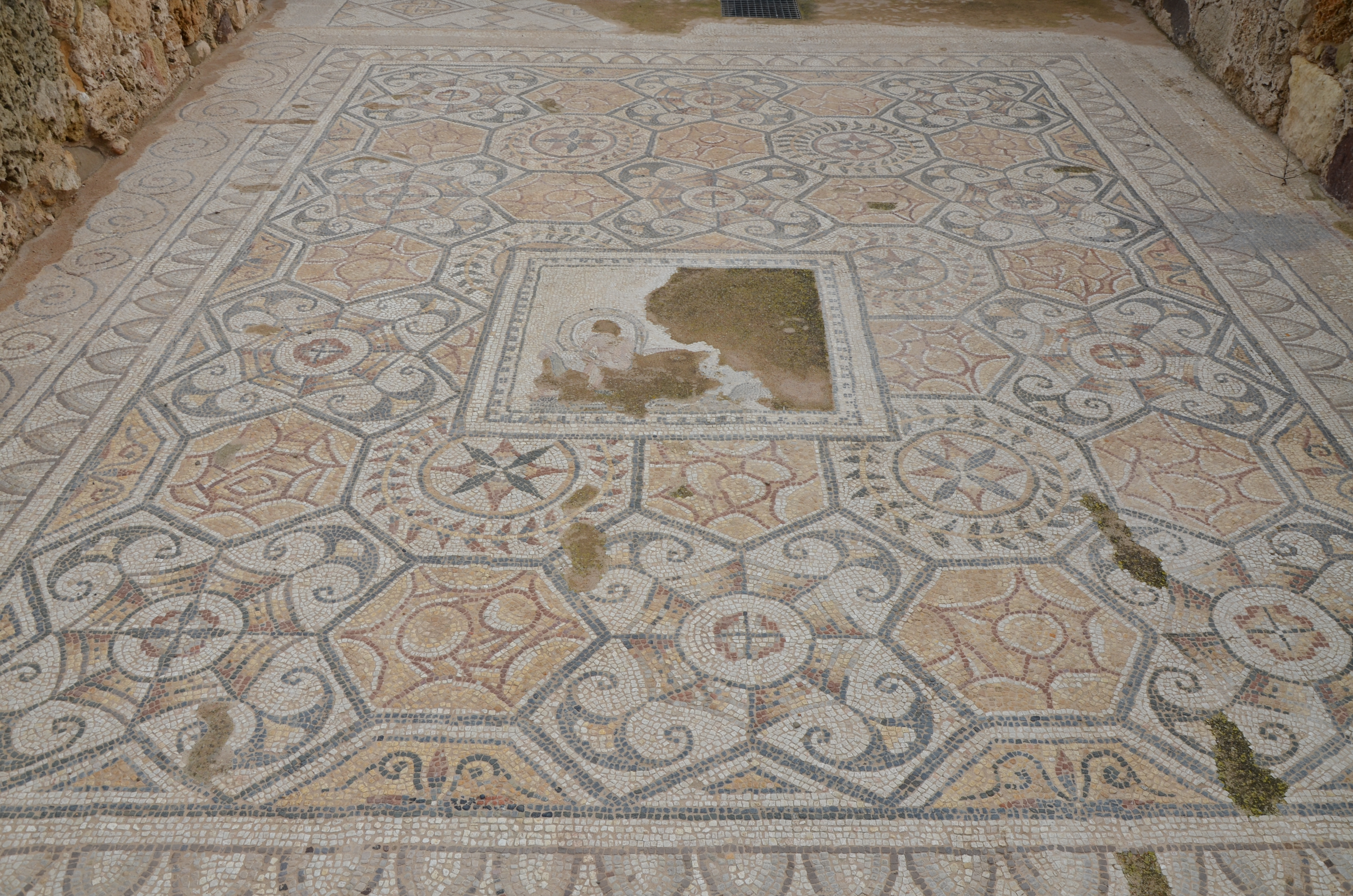 Mosaic floor from one of the cubicula of a patrician house in black, white and ochre with an emblema depicting a nymph riding a dolphin, Nora, Sardinia